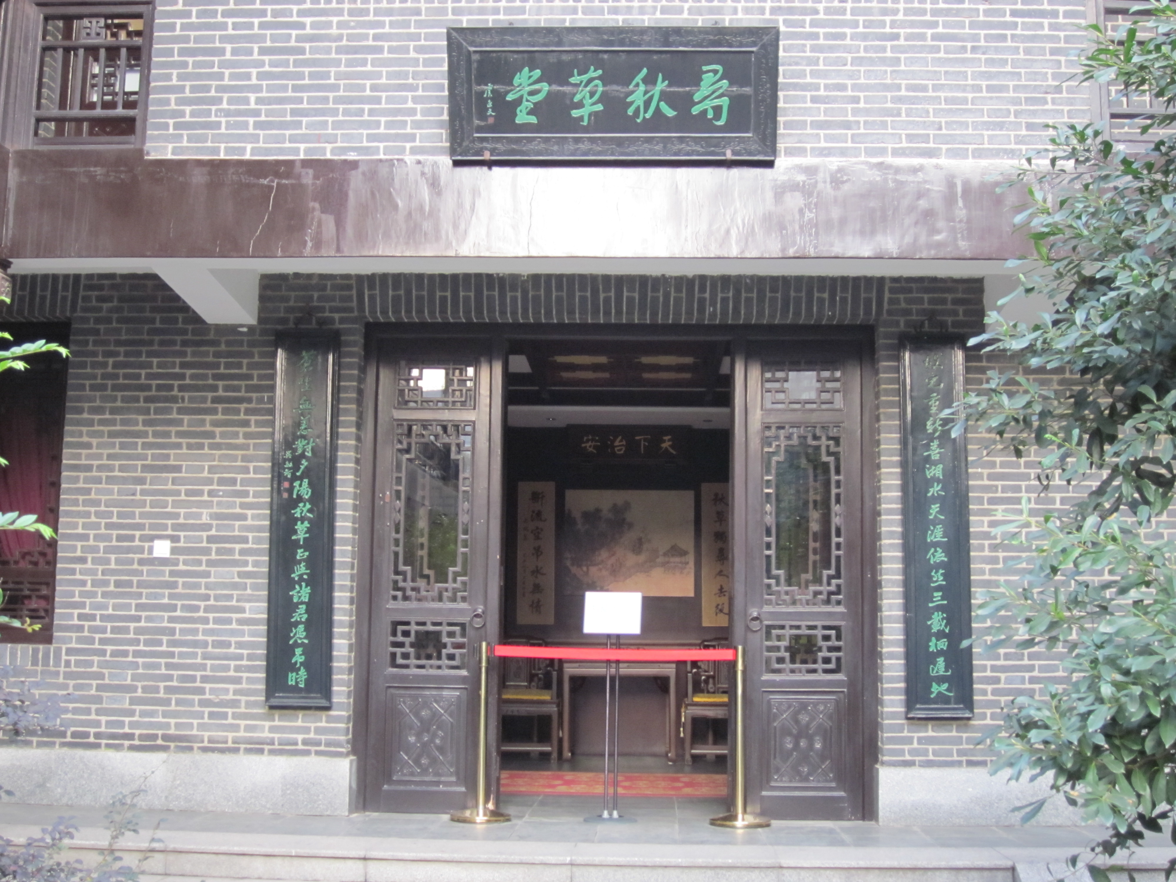 Former residence is located in China jia yi changsha in hunan liberation west road and peace at the street corner, the former residence of hunan province jia yi is protected units of cultural relics.